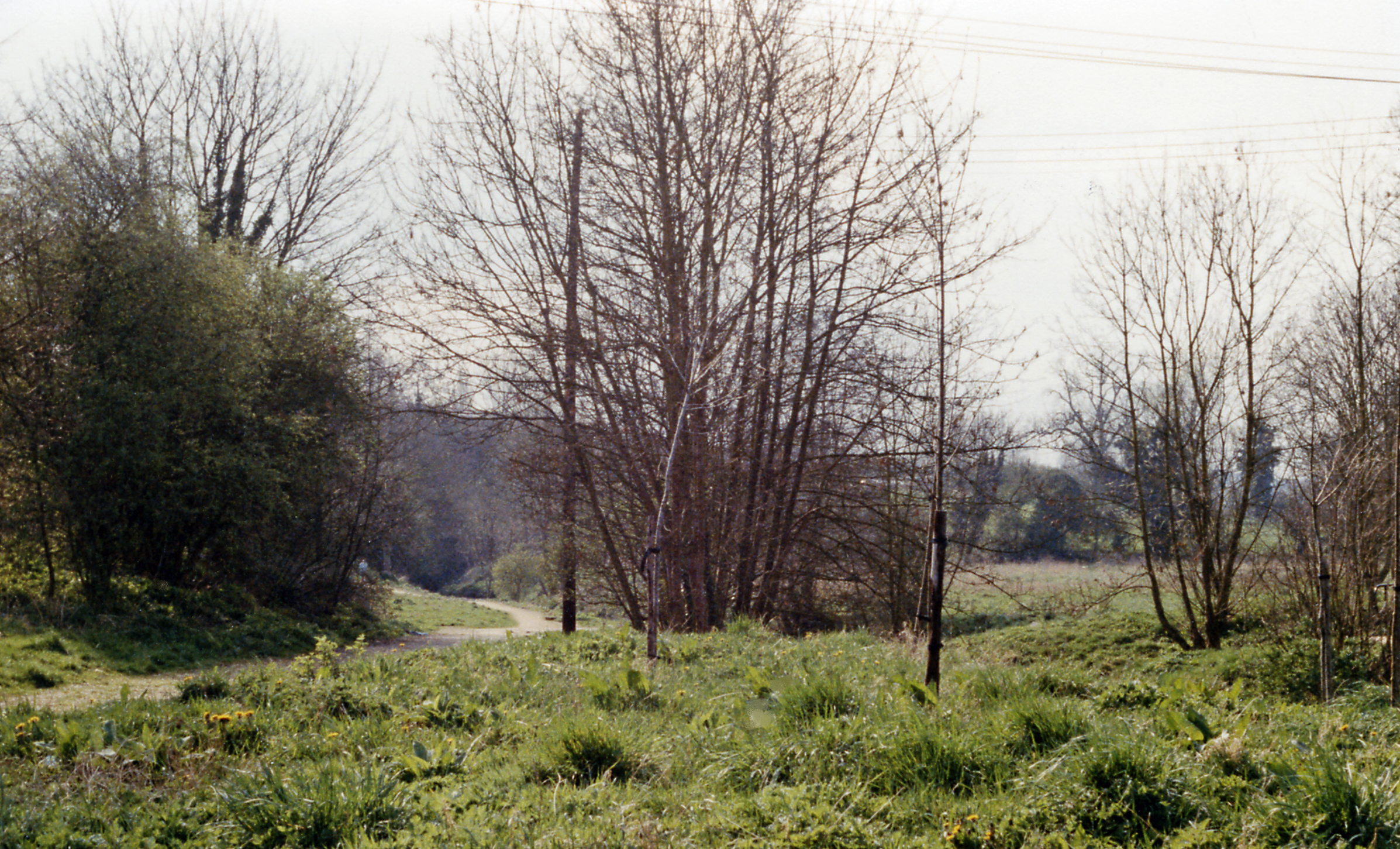 Probable site of Calne station, 1989. View westward, towards Chippenham. In 1989 nothing could be found of the terminus of the formerly quite important ex-GWR branch from Chippenham, closed since 20/9/65.